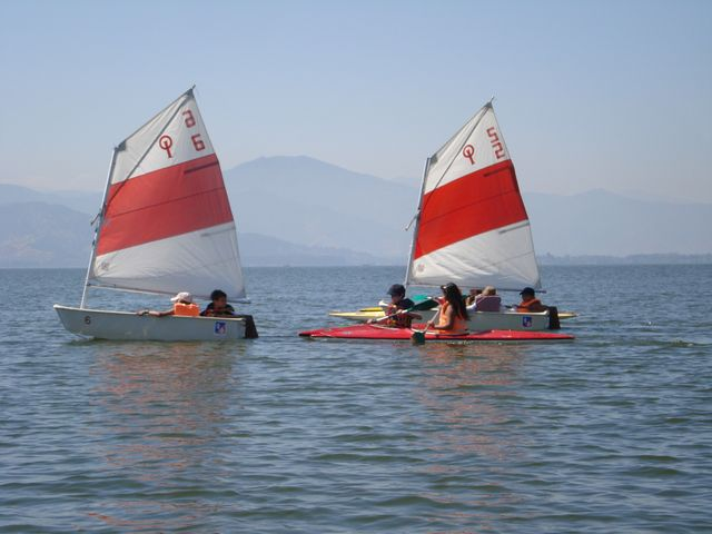 Eleves en classe de découverte à Rapel faisant du kayak et du bateau à voile